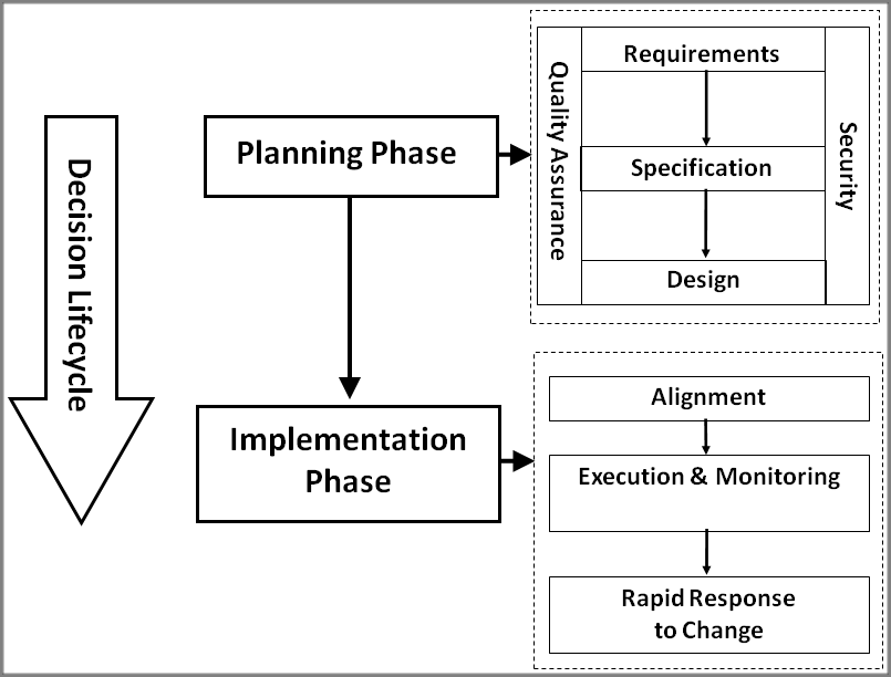 Elements of decision engineering